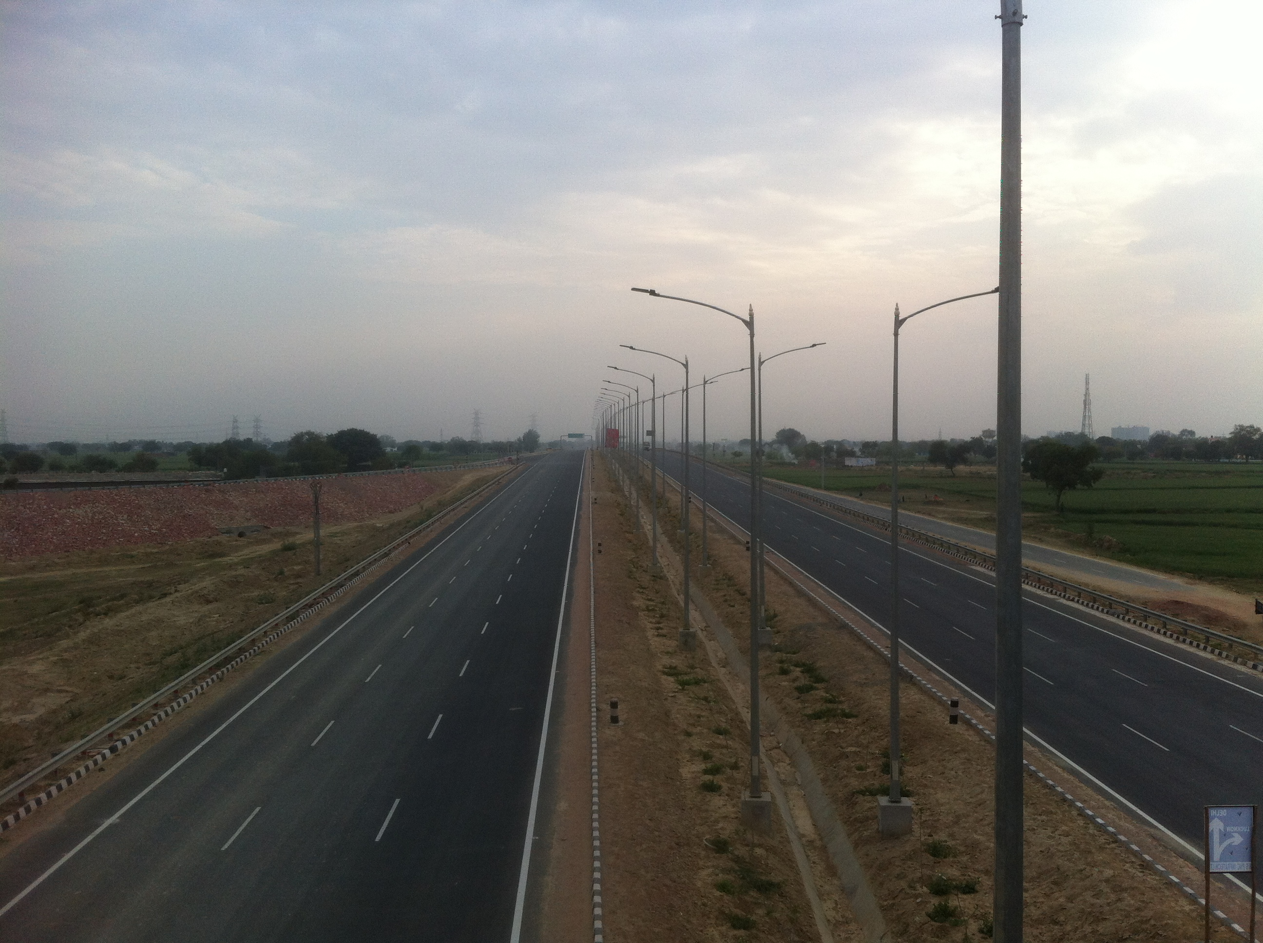 Agra Lucknow Expressway